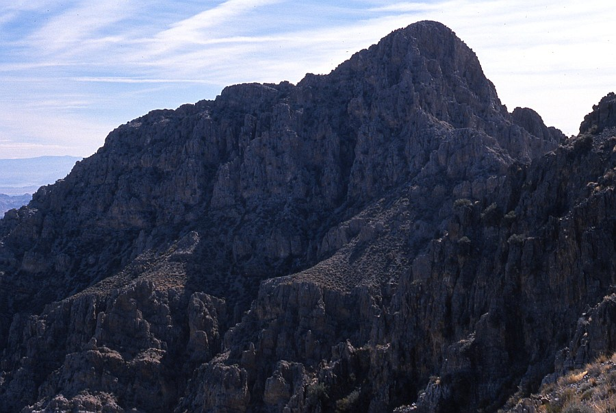 Muddy Peak, the high point of the Muddy Mountains — in Clark County, southern Nevada..